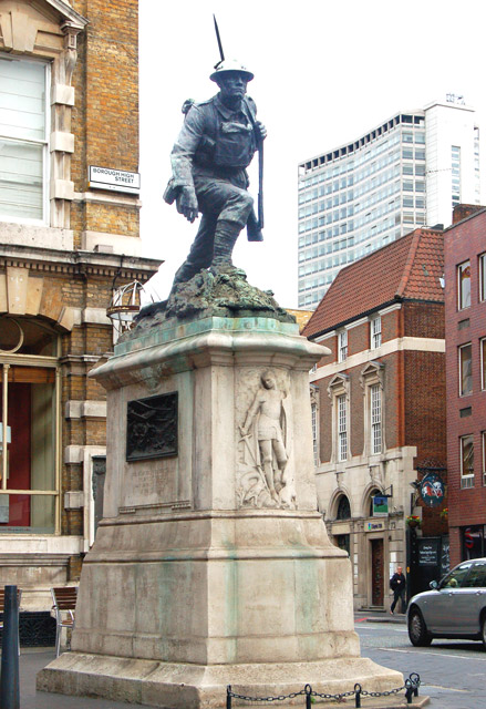 War memorial on Borough High Street, south London The inscription on the war memorial reads: "This memorial was erected by the parishioners of Saint Saviour's, Southwark, in the year 1922"